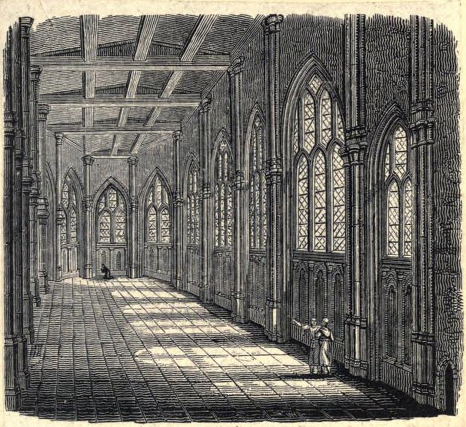 St Thomas on the Bridge: interior view of the Upper Chapel, engraved by W Hughes after prints by George Vertue, (1684 – 1756), which in turn were based on a survey by architect Nicholas Hawksmoor (1661 – 1736)